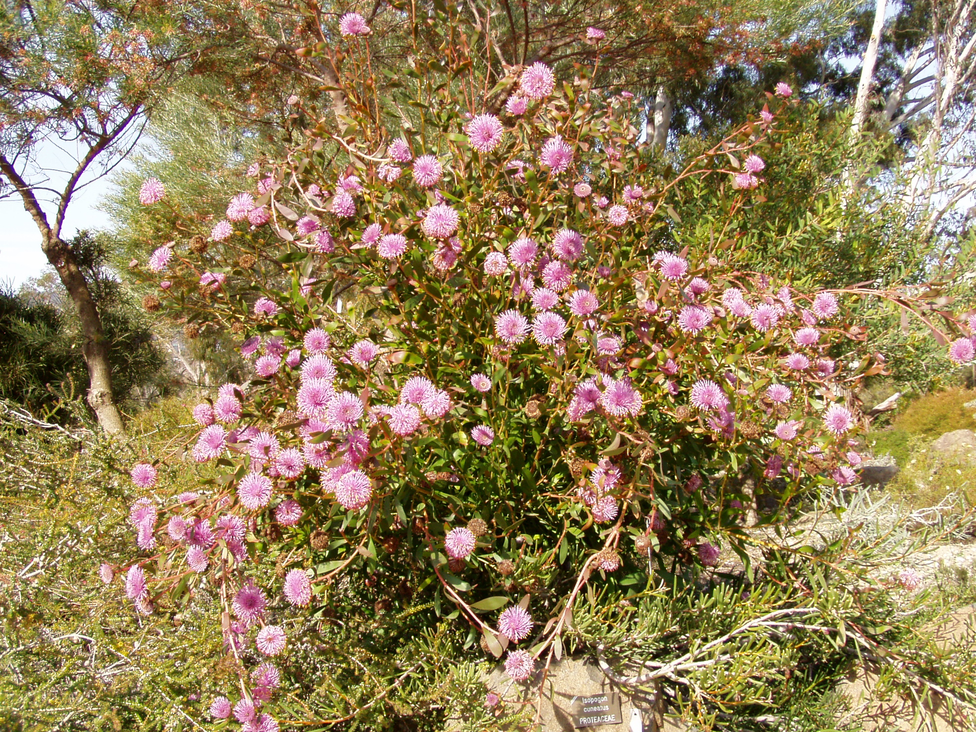 Description: Coneflower (Isopogon cuneatus) Location: Australian National Botanic Gardens, Canberra, Australian Capital Territory, Australia Date: 2005-09-21 Source: picture taken by Danielle Langlois Licence: Released under GFDL and Creative Commons licenses by the photographer